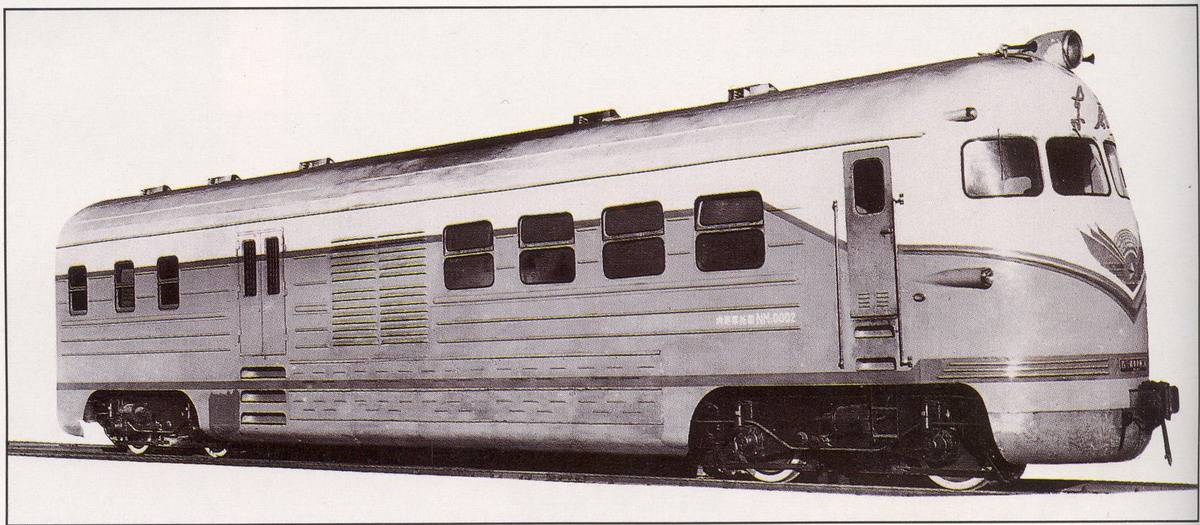 The first diesel multiple unit train of China, Dongfeng (East Wind), manufactured in 1958.